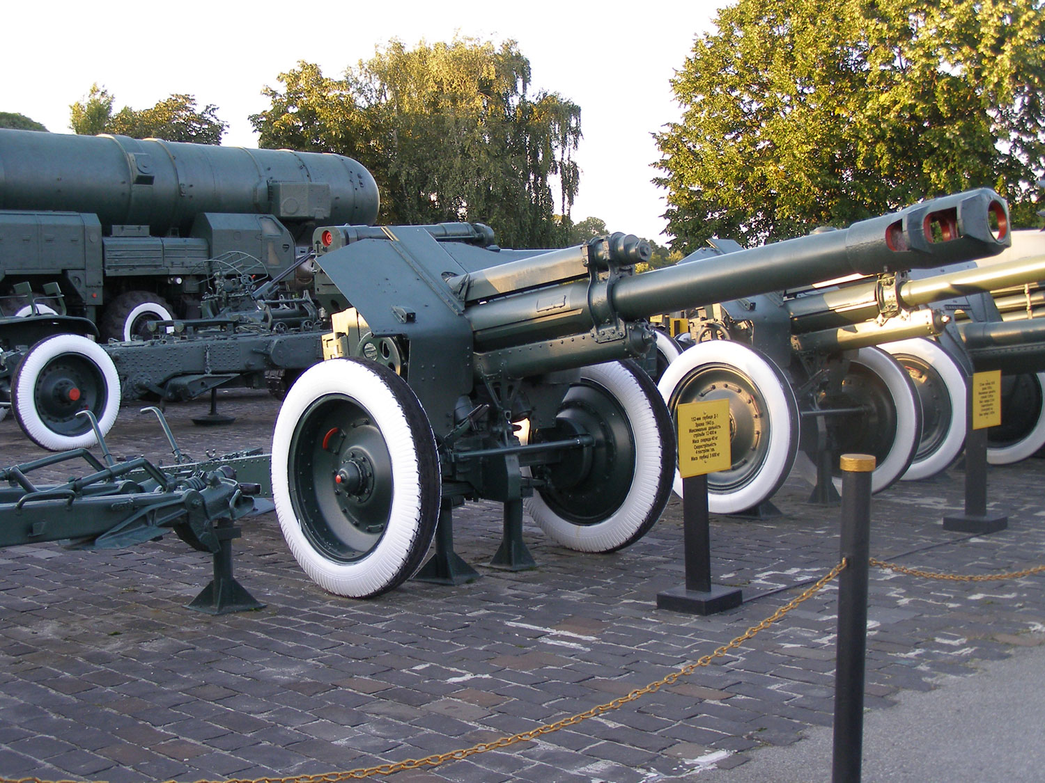 152-mm howitzer D-1 at Museum of the Great Patriotic War, Kyiv.